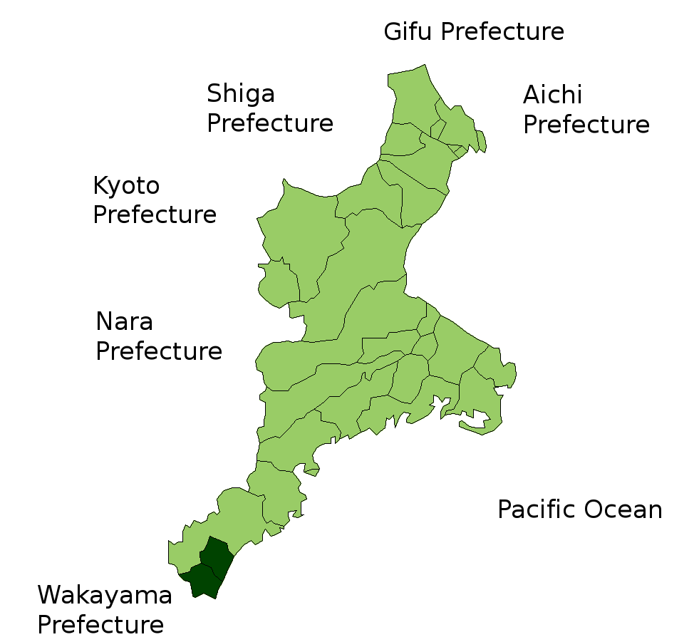 Location Map of Minamimuro District in Mie Prefecture, Japan